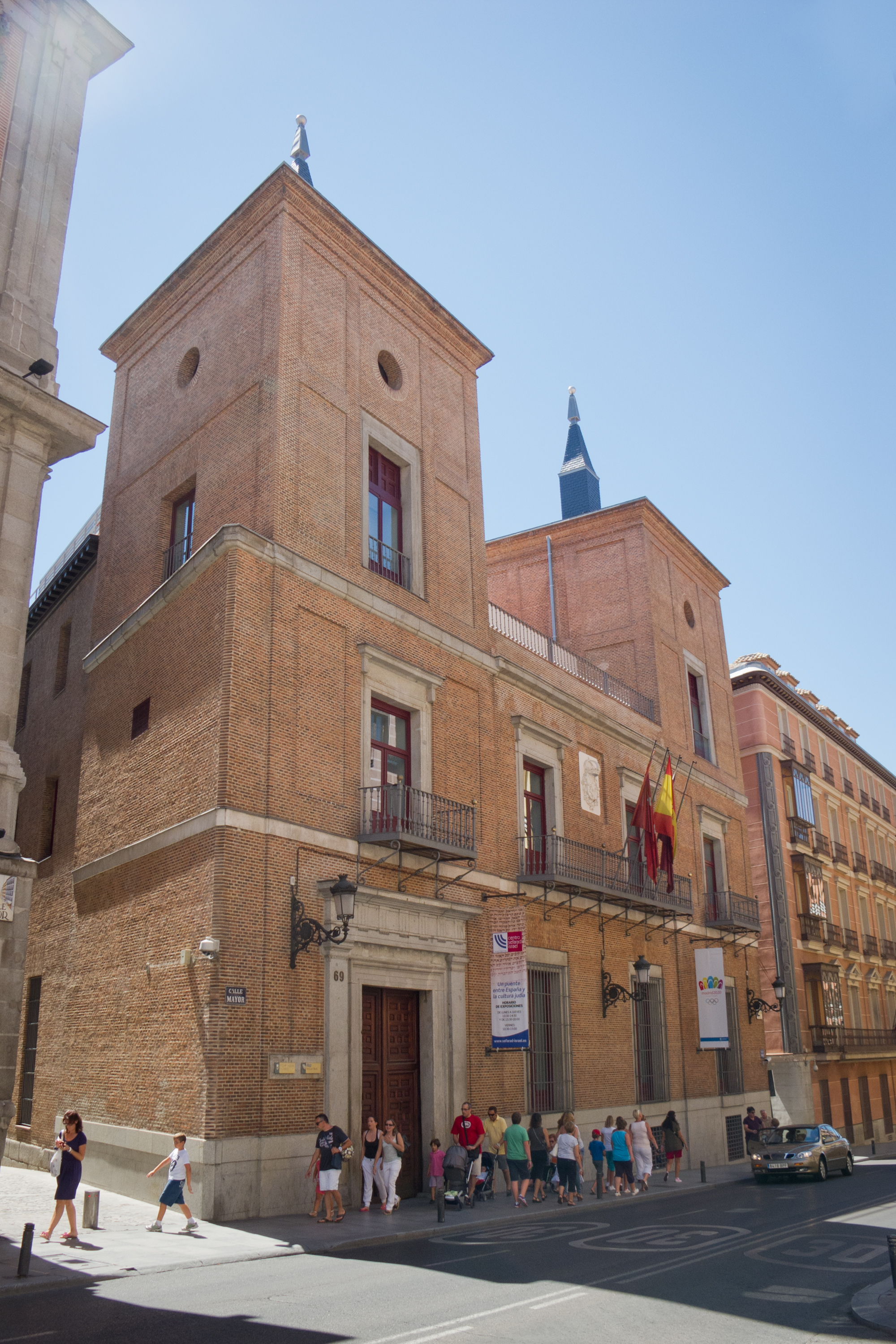 Cañete Palace, Madrid, Spain.